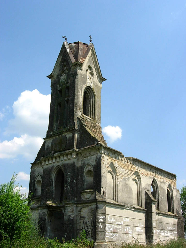 Saint Joseph Chapel in the Roman Catholic cemetery of Ratkovo, Odžaci, Vojvodina, Serbia.